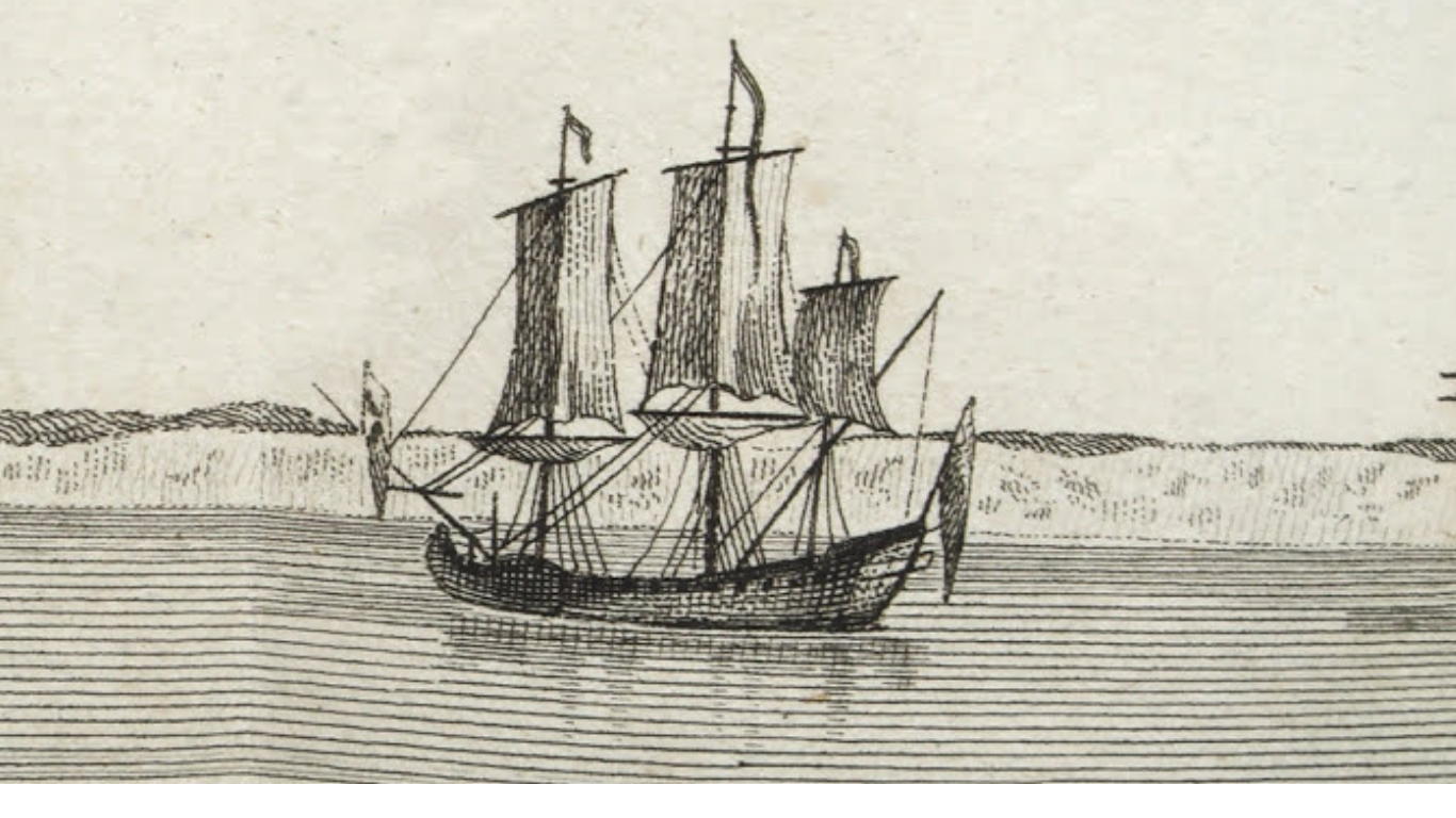 Lieutenant Piercy Brett's sketch of HMS Wager, off Cape Virgin Mary, 1741-03-07